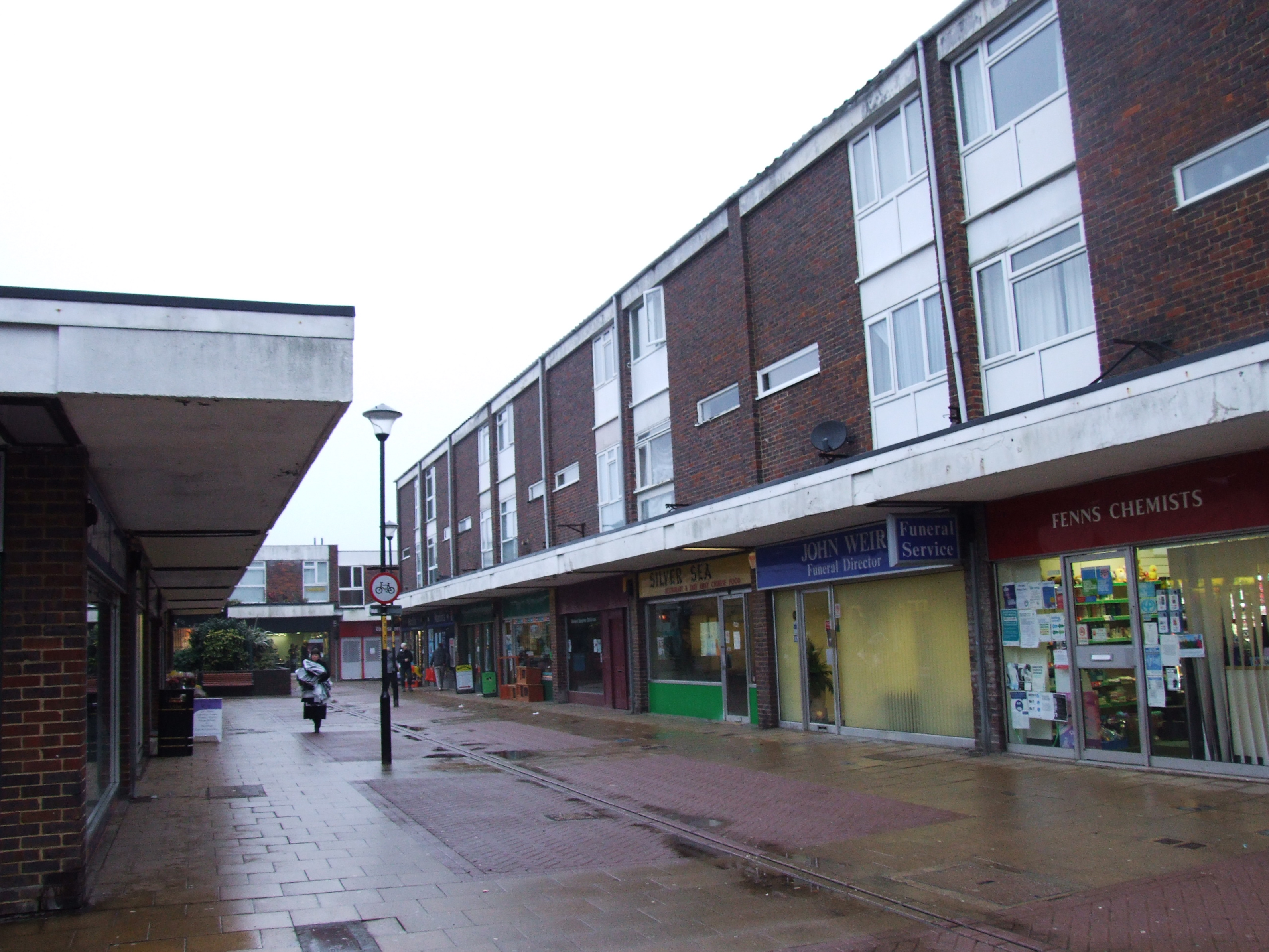 Parkwood Green Shopping Centre